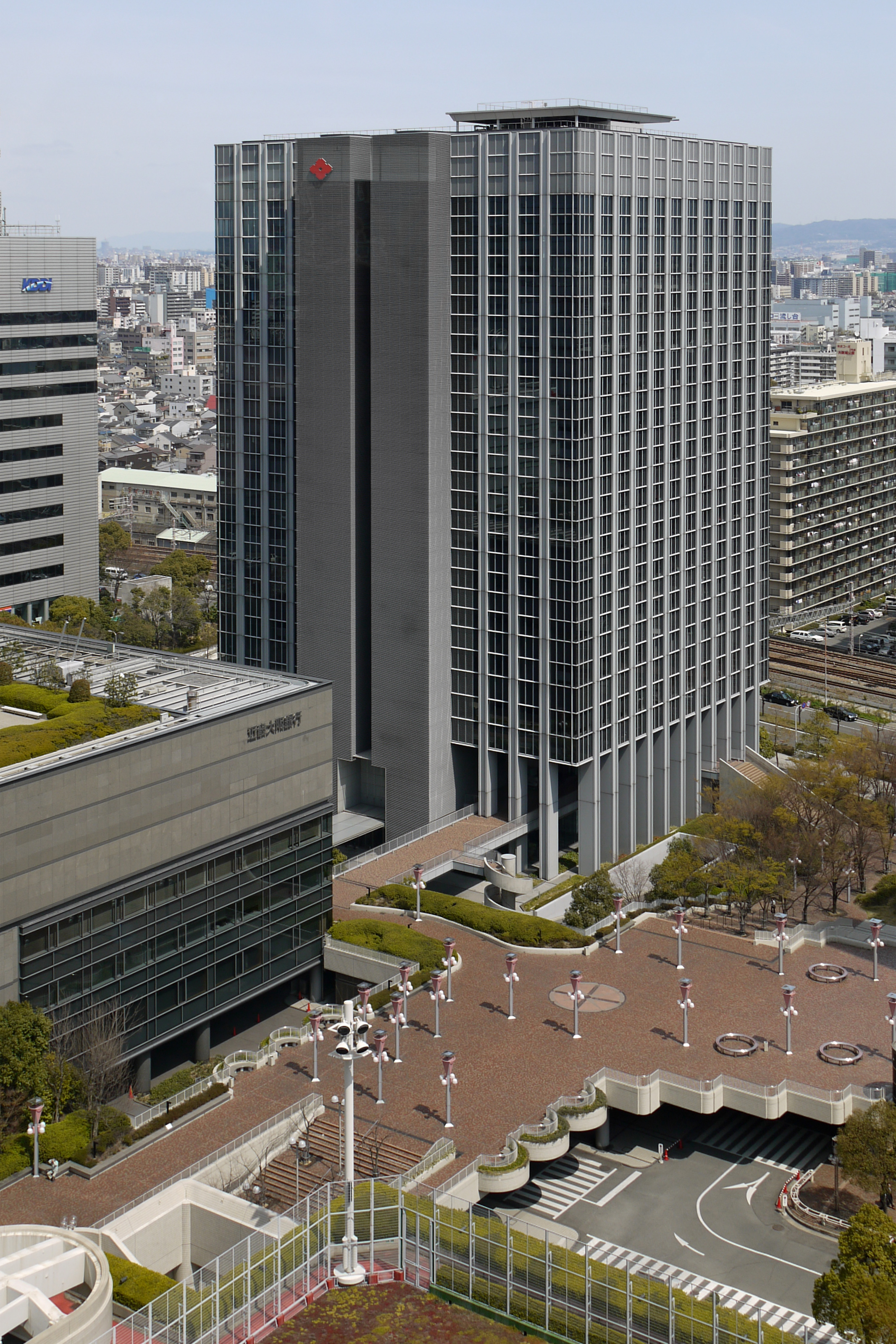 Sumitomo Life Insurance Company Headquarters in Osaka, Osaka prefecture, Japan